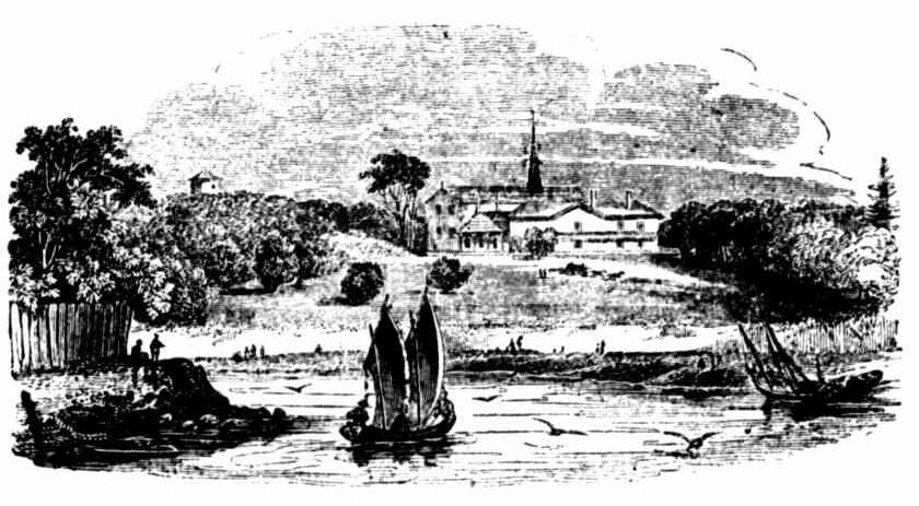 The first government house erected in Sydney. The site is now the corner of Bridge and Phillip streets (the foundations can be seen at the Museum of Sydney . This drawing was published in 1833. The foreground of the picture is the spot on which Marquarie Place has been formed.